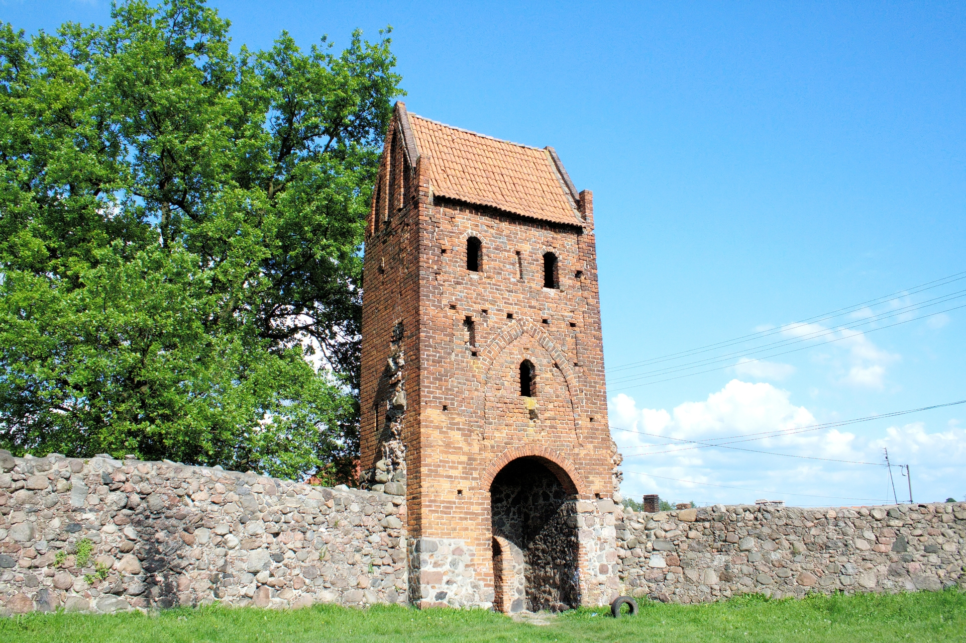 Town walls with the Powder Tower (XV century) in Mieszkowice